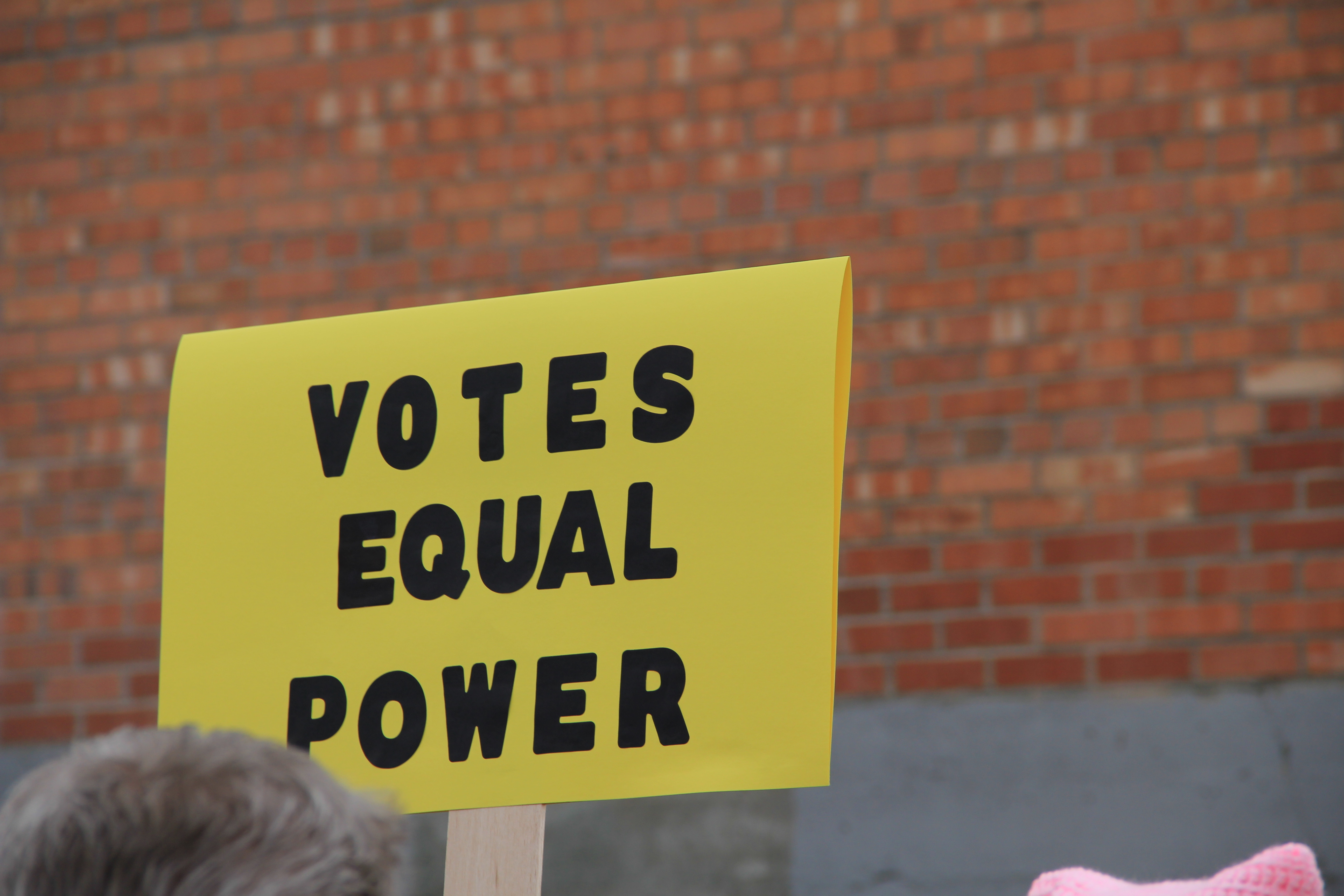 2018 Women's March in Missoula, Montana.